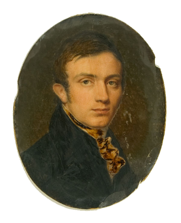 Johannes Amsinck (23.2.1792 – 8.9.1879). Hamburg merchant and patrician.